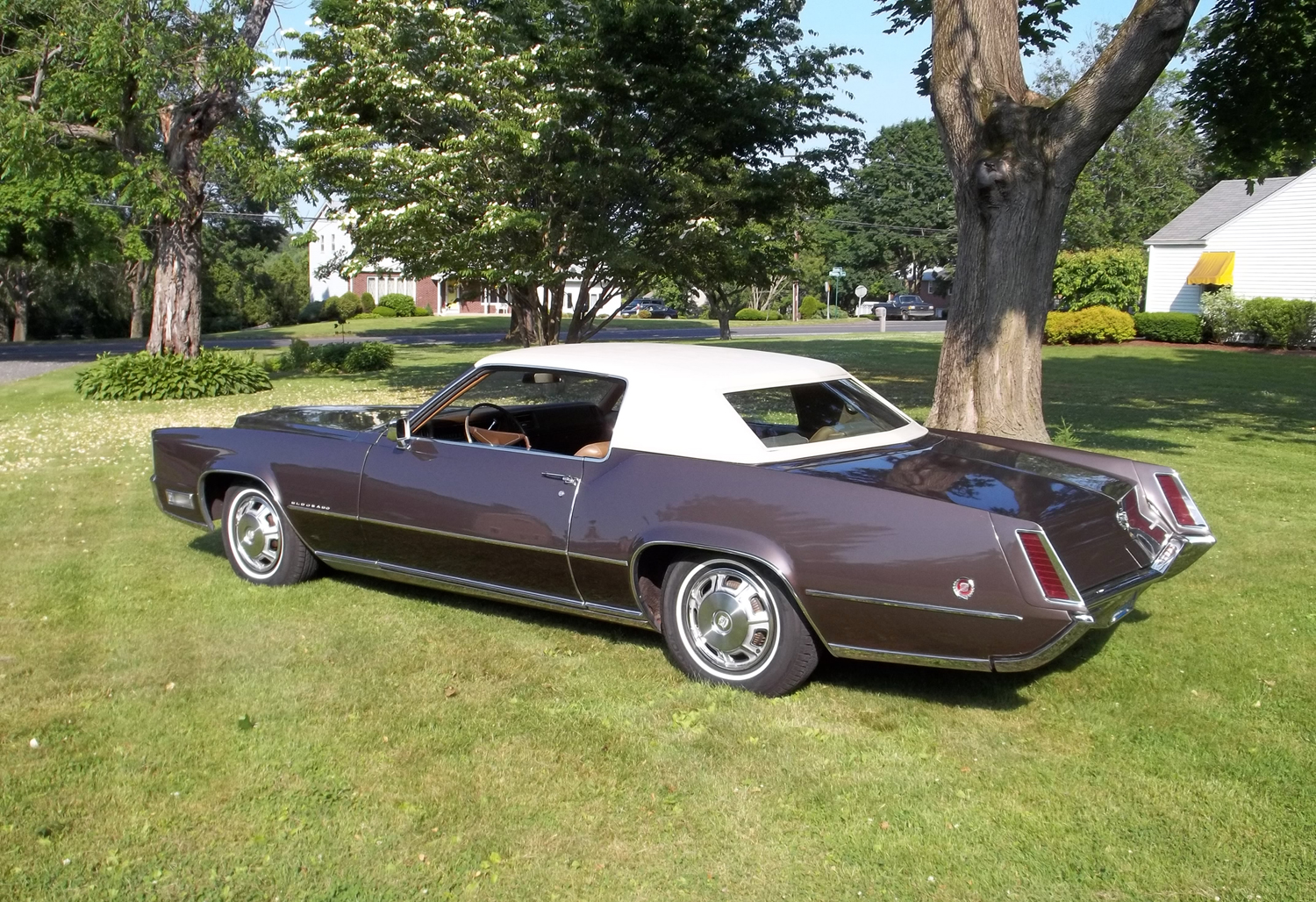 Today was a beautiful day so I took my car over to a friends house to get some new photographs of it. The colour is Rosewood Firemist.